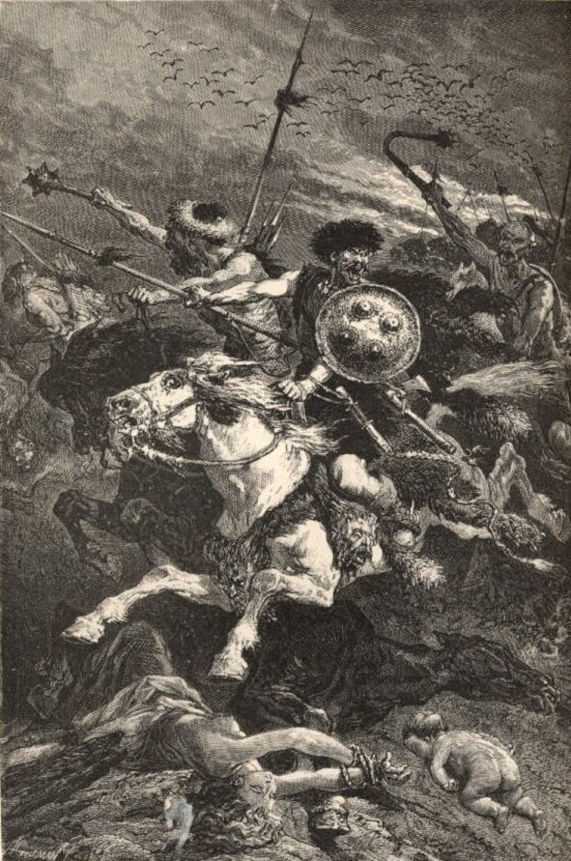 "The Huns at the Battle of Chalons" from page 135 of A Popular History of France From The Earliest Times Volume I of VI (Project Gutenberg e-text). Illustration by A. De Neuville (1836-1885). img url